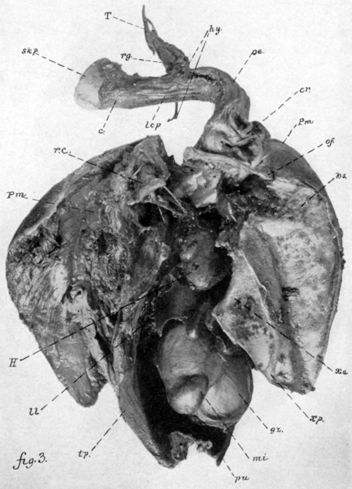 Neck and trunk of Martha, the last Passenger Pigeon (Ectopistes migratorius) (same specimen). Skull and associated parts anterior to aural apertures have been cut away. Hyoidean apparatus, trachea and aesophagus drawn down considerably below normal position. Crop empty and wrinkled up. Os furculum dislocated at right shoulder, and right coracoid thrown out of its sternal articulation. Right pectoral muscles and other structures dissected away from sternum and drawn far to one side. Right side of sternum in full view. Thoracic and abdominal cavities opened up ventrally, and heart, left lobe of liver, gizzard, etc. exposed to view.